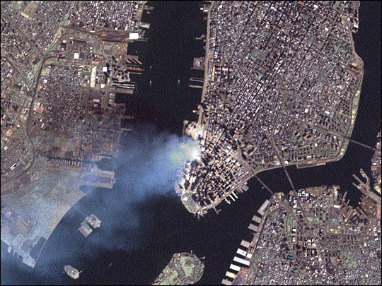 Landsat 7 satellite on September 12, 2001, at roughly 11:30 a.m. Eastern Daylight Savings Time. NASA